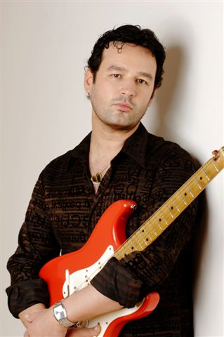 Jean-Pierre Danel on 2006.